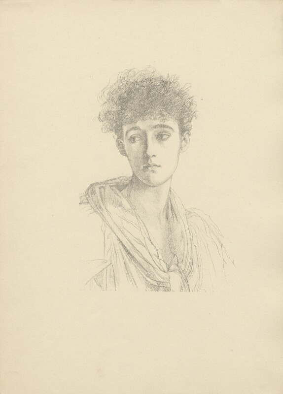 Emmeline Mary Elizabeth ('Nina') Cust (née Welby-Gregory) after Violet Manners, Duchess of Rutland lithograph, 1890s 15 in. x 10 7/8 in. (381 mm x 277 mm) paper size NPG D23401